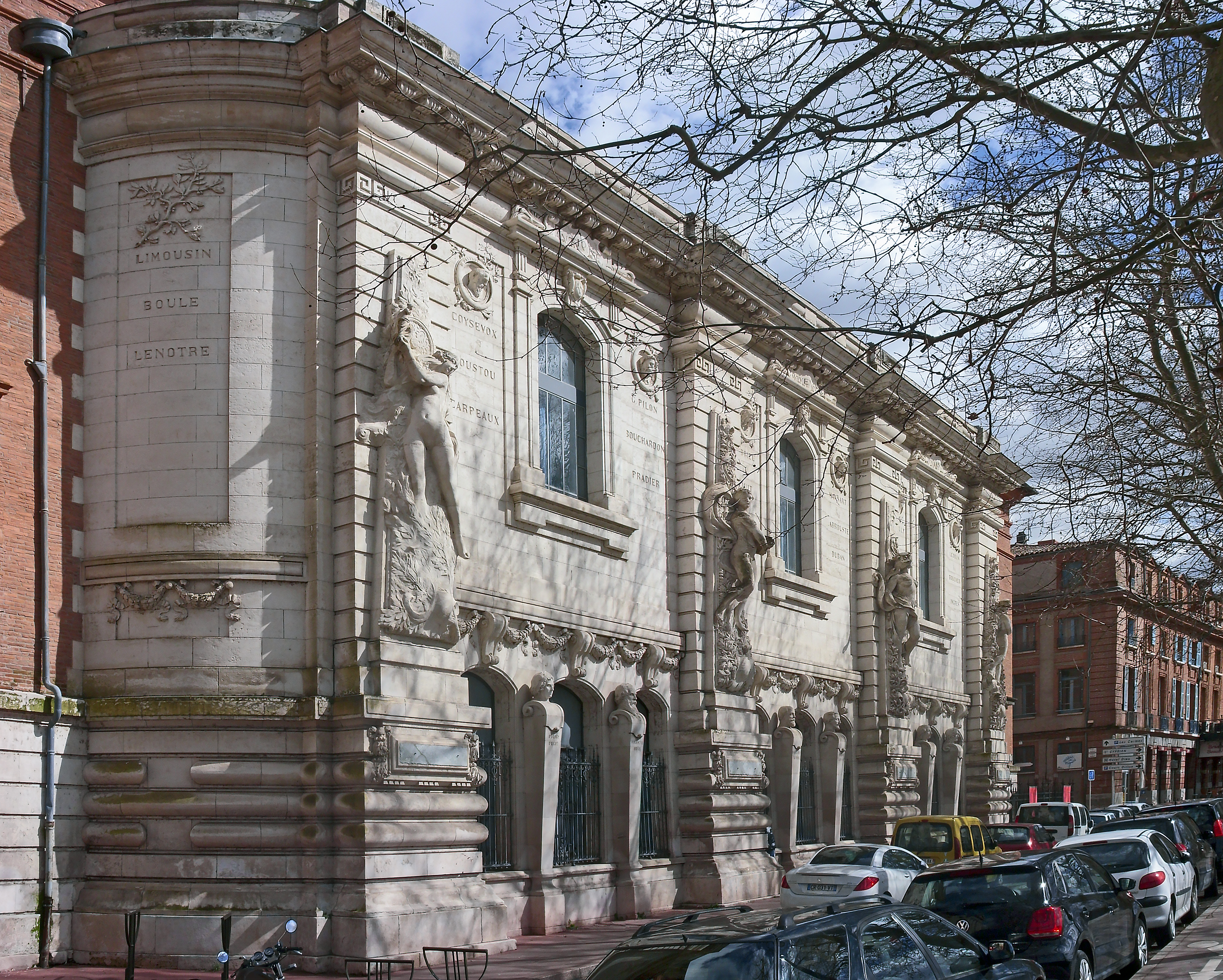 École supérieure des beaux-arts from Toulouse, facade